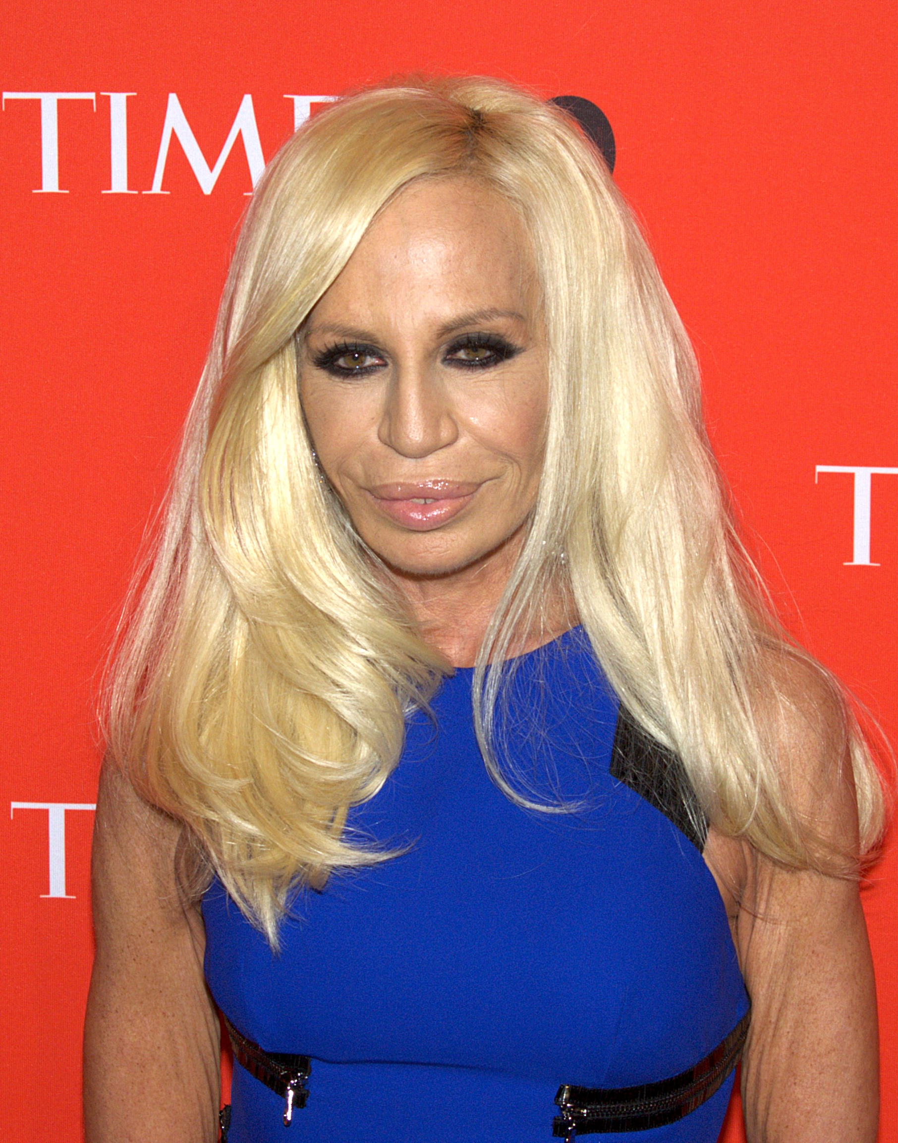 Donatella Versace at the 2010 Time 100.